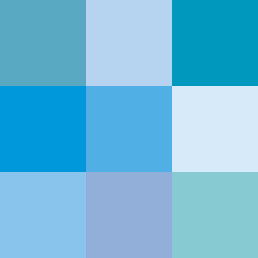 Nine different shades of light blue. Intended use: to illustrate the look and scope of the colour celeste (light blue) in Spanish Wikipedia.